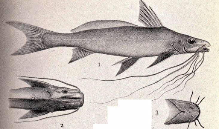 Perugia agassizii (Steindachner) Subject: Poeciliidae Tag: Fish